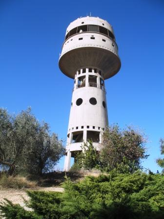 Architecture of Israel